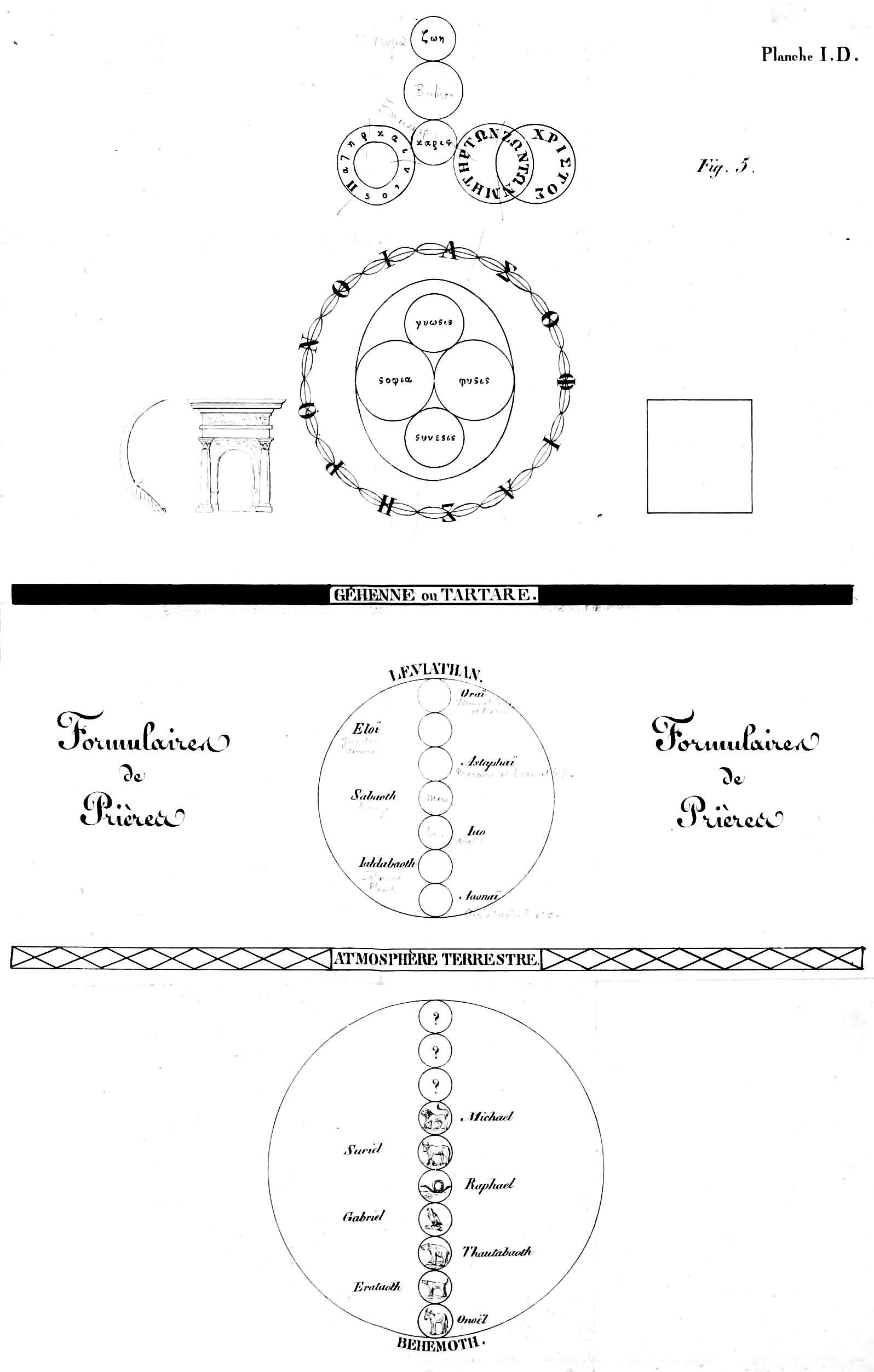 Ophite Gnostic Diagram of the Universe